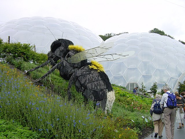 Pollination. Robert Bradford's giant bee at the Eden Project.